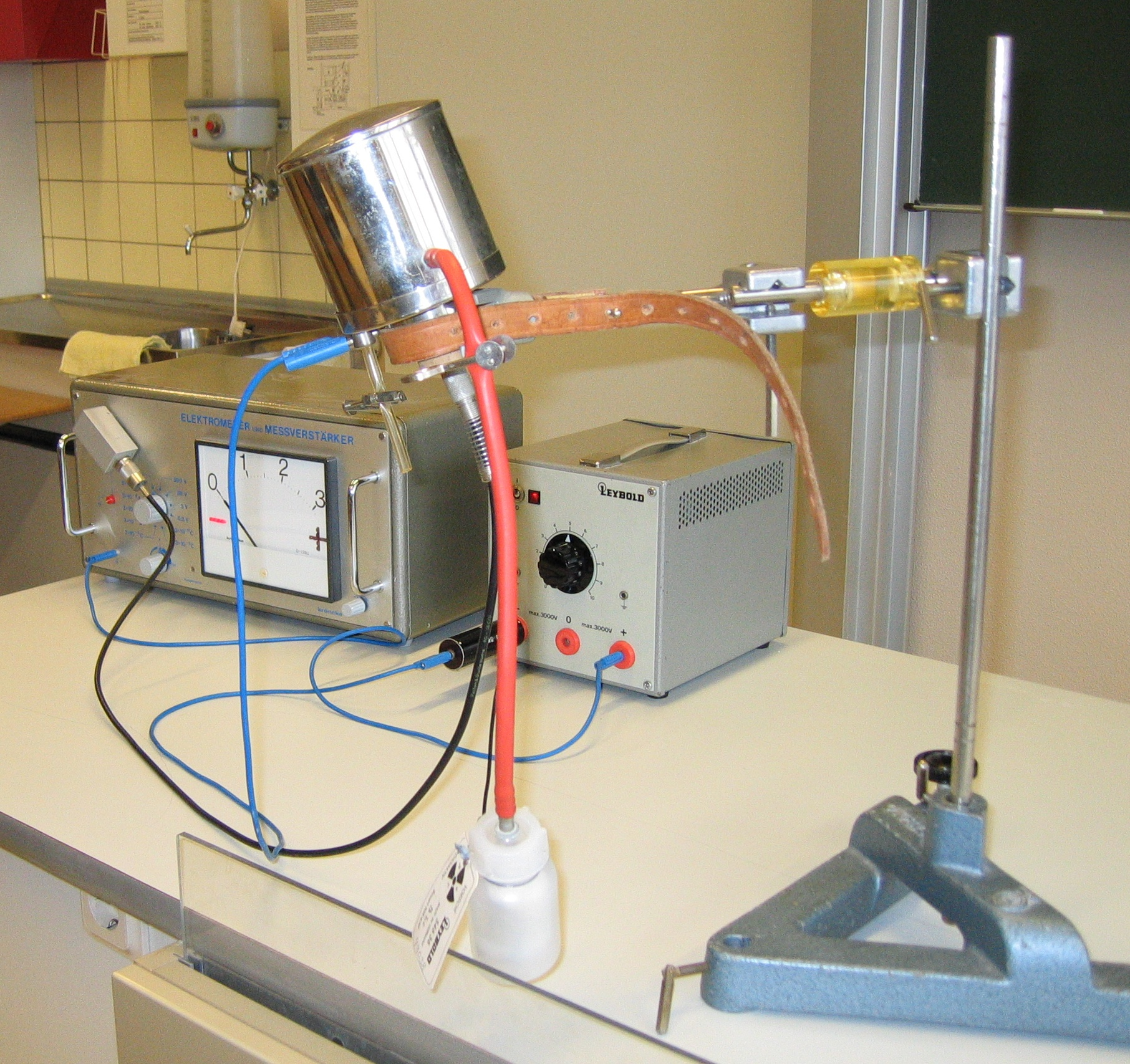 A physical experiment. Photo taken by Michael Krahe at 2005-02-23.